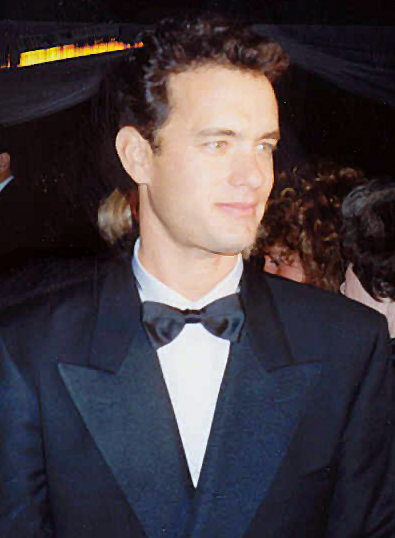 Tom Hanks at Governor’s Ball party after the 1989 Academy Awards, March 29th, 1989. Cropped from original.853